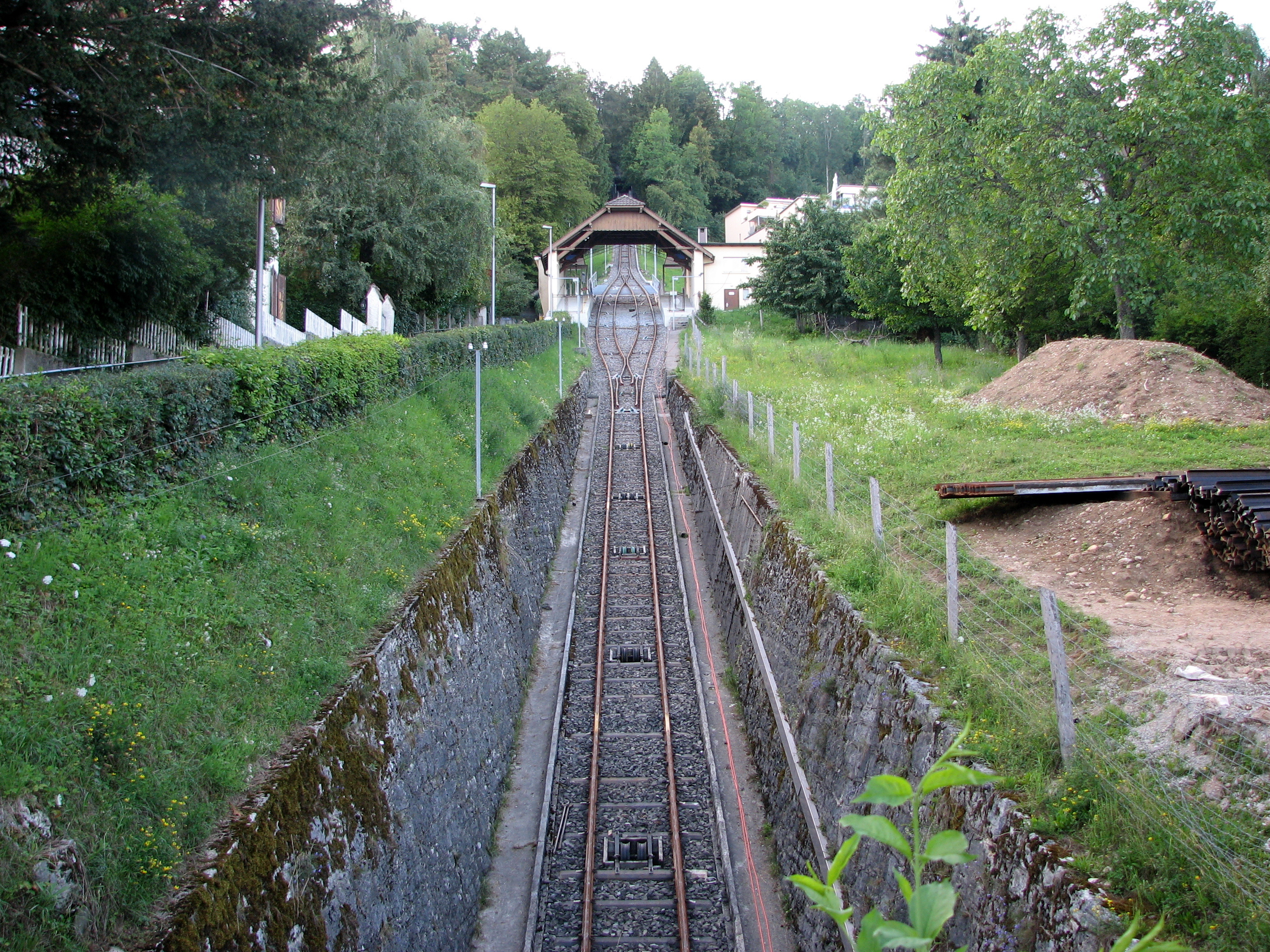 Intermediate station Beaumont on the Bienne–Evilard Funicular in Biel/Bienne. This photograph was taken during an overhaul: there is no cable in the trackway.